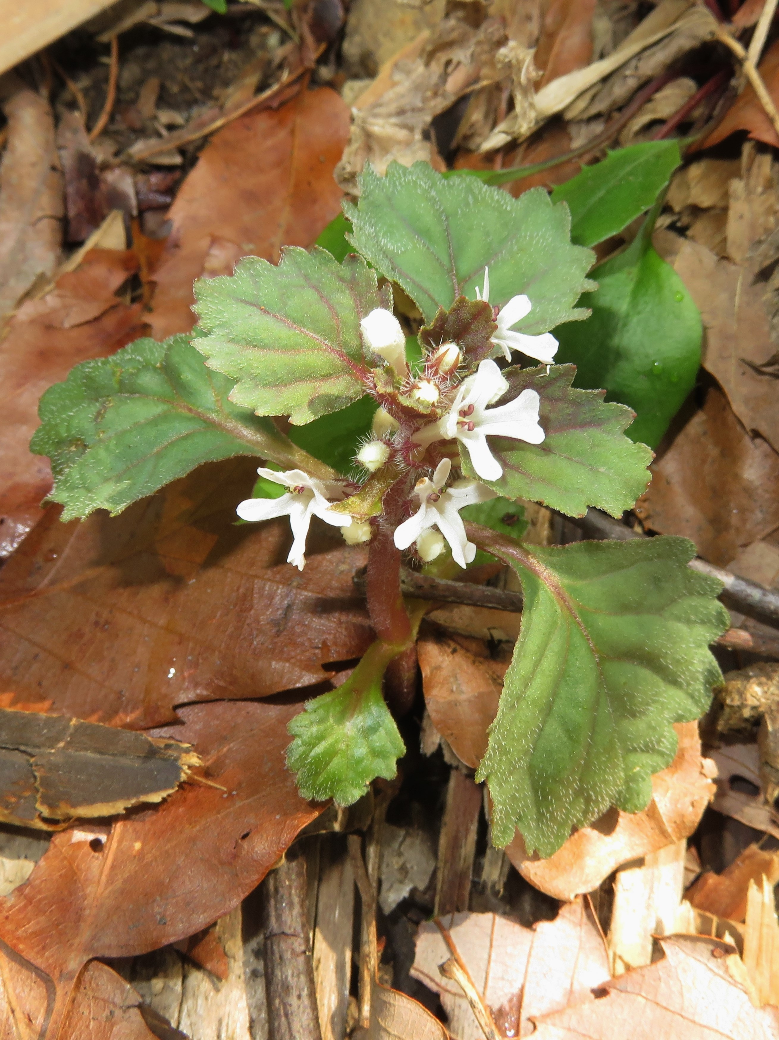 Ajuga yesoensis, Kaetsu area, Niigata pref., Japan